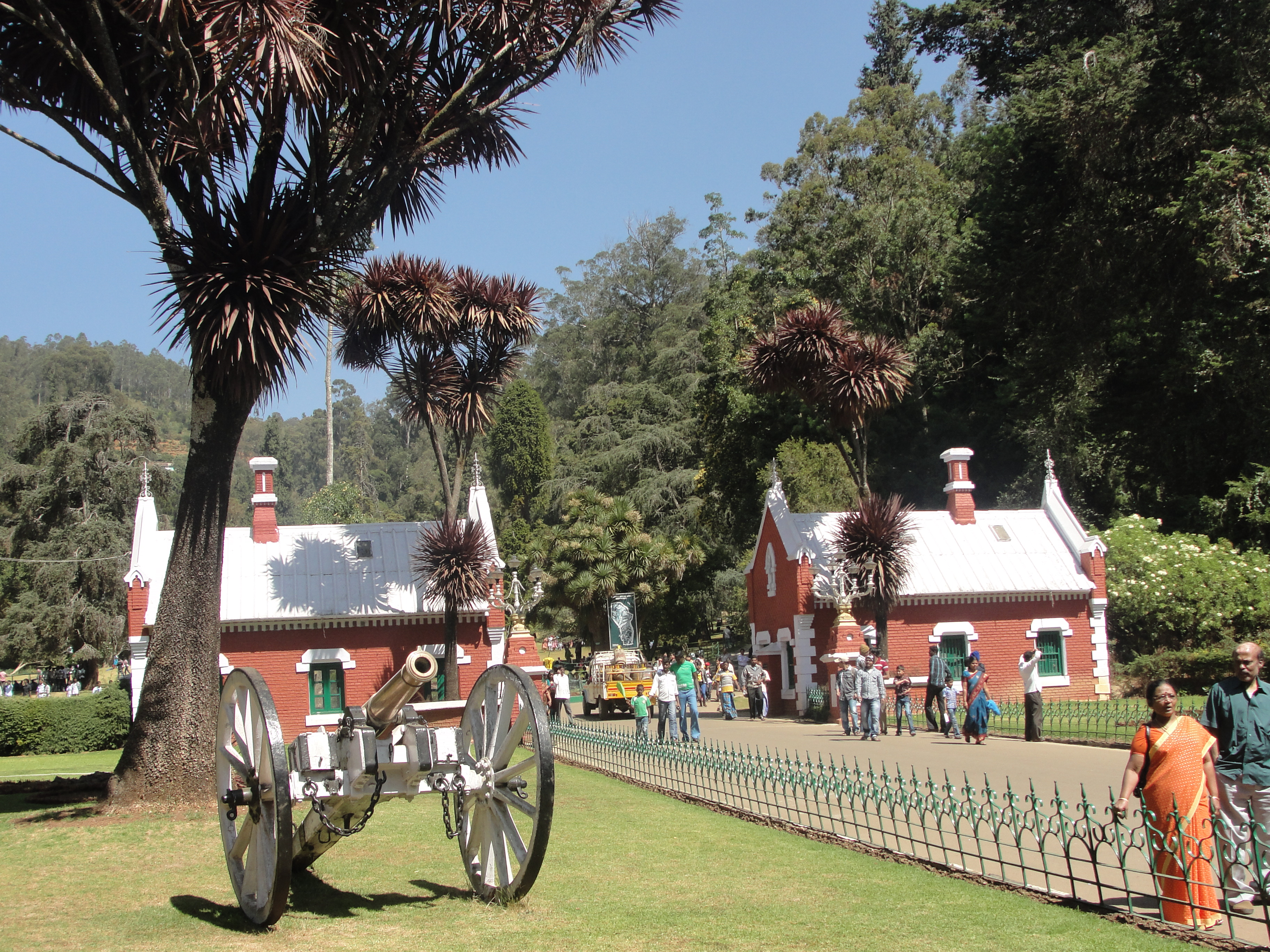 Botanical Garden, Ooty, India